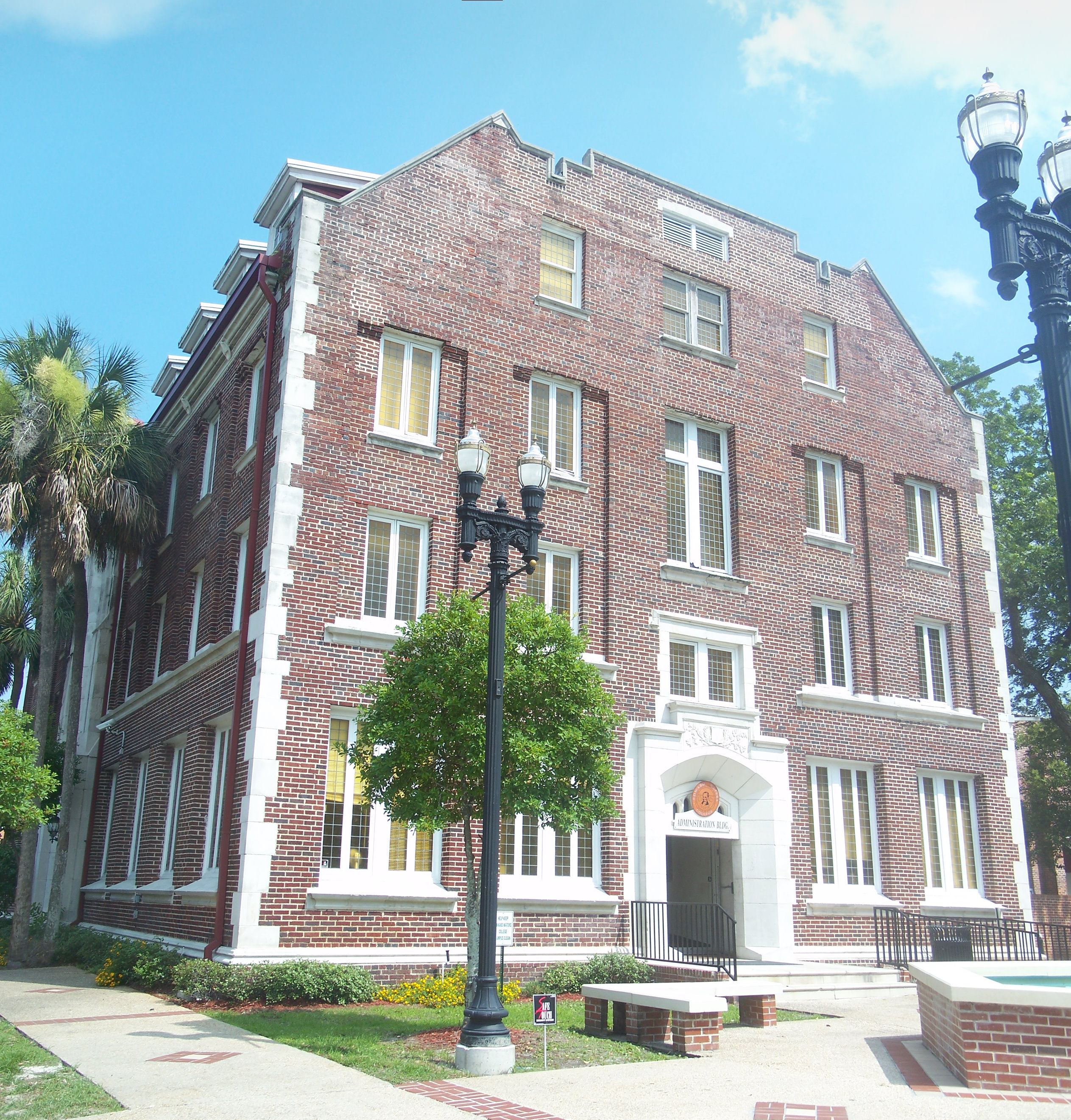 Jacksonville, Florida: Edward Waters College: Administration Building